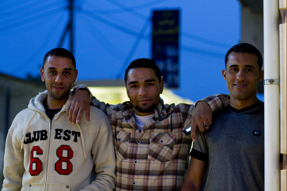 Libyan Arabs from Al Bayda city